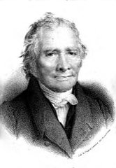 Portrait Rene Levasseur